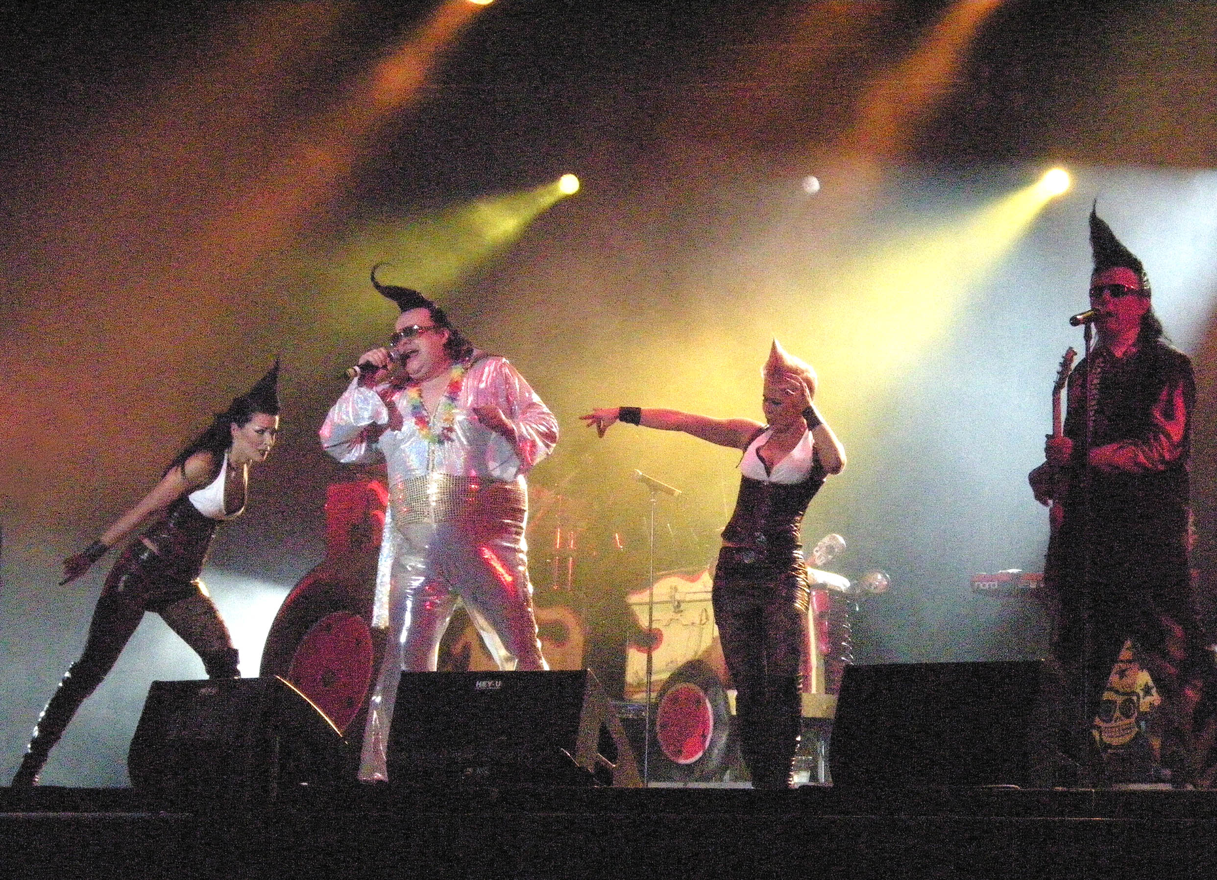 Leningrad Cowboys in Vienna, Austria, Donauinselfest 2008.